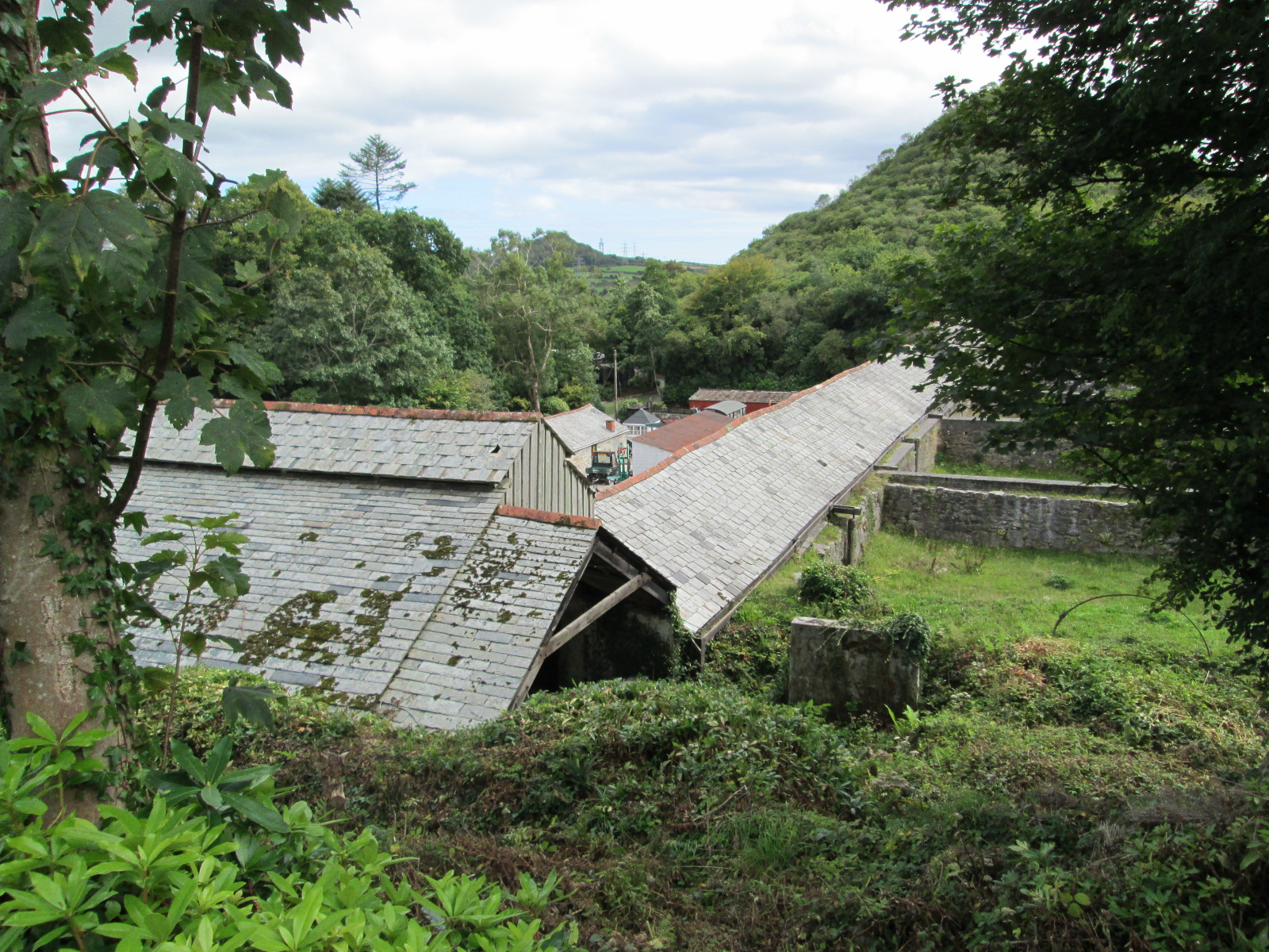 Preserved buildings of the Wheal Martyn clay works, part of the museum in Cornwall, England. On the right are the open-air settling tanks; the adjacent long building is the pan kiln, or "dry".